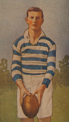 Cigarette card of Australian rules footballer Wallace Sharland